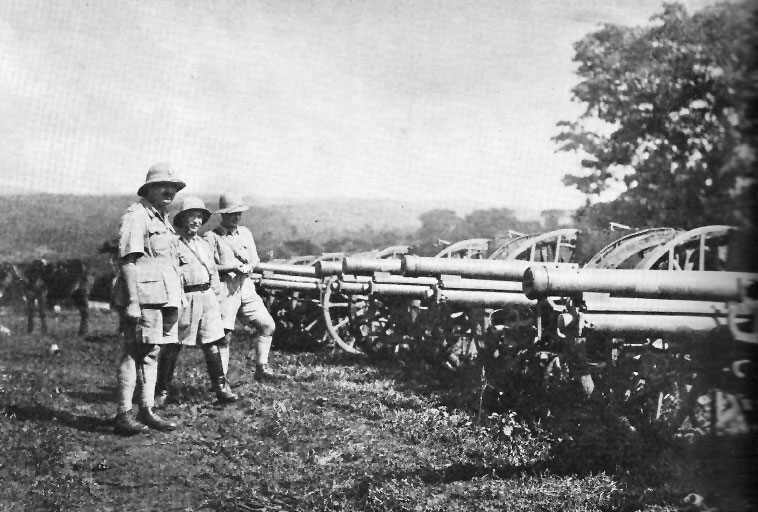 Belgian forces with captured Italian artillery following the Seige of Saïo in Italian East Africa